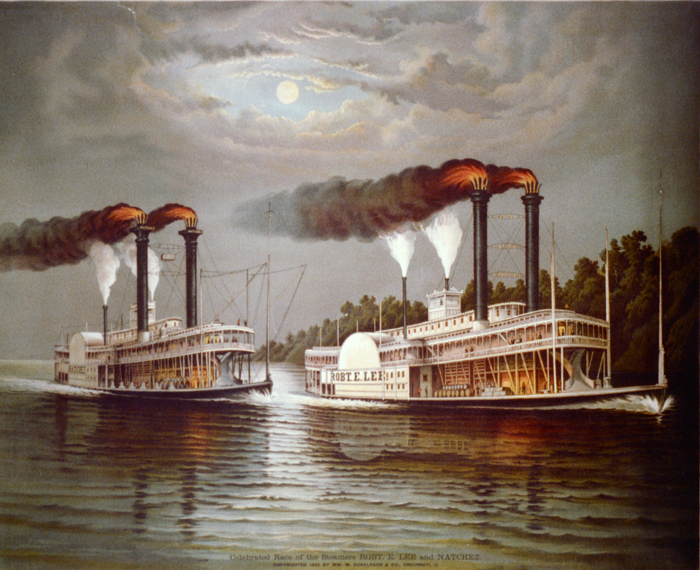 "Celebrated race of the steamers Robt. E. Lee and Natchez". Chromolithograph depicting 1870 race of two Mississippi River steamships.